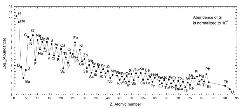 This is a monochrome PNG version of the file File:SolarSystemAbundances.jpg, with the JPEG artifacts removed.